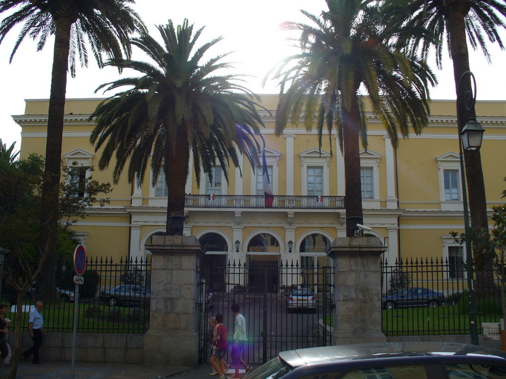 Corsica - Ajaccio - La Préfecture on Cours Napoléon